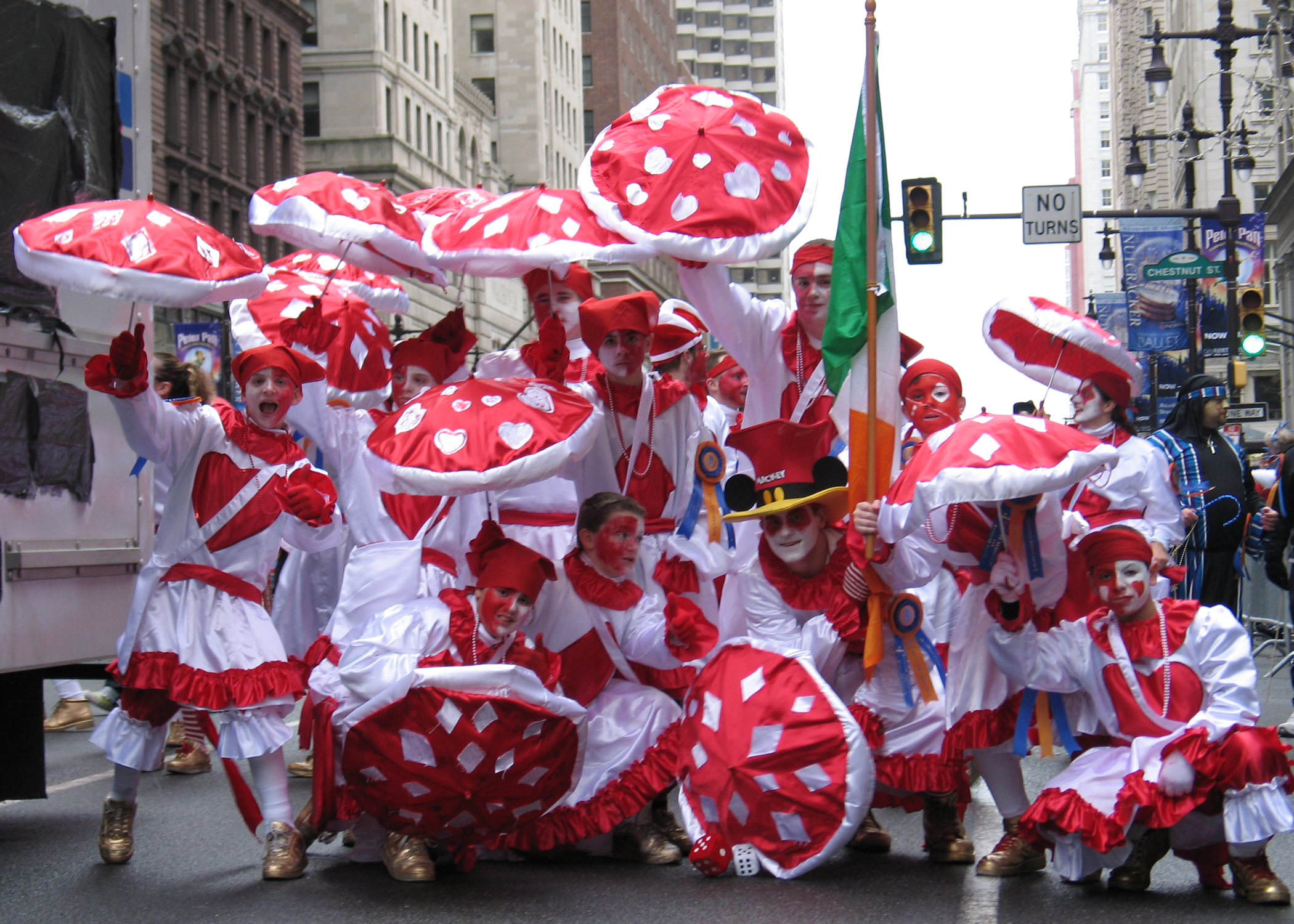 The Holy Rollers New Year's Brigade in the 2008 Mummers Parade (